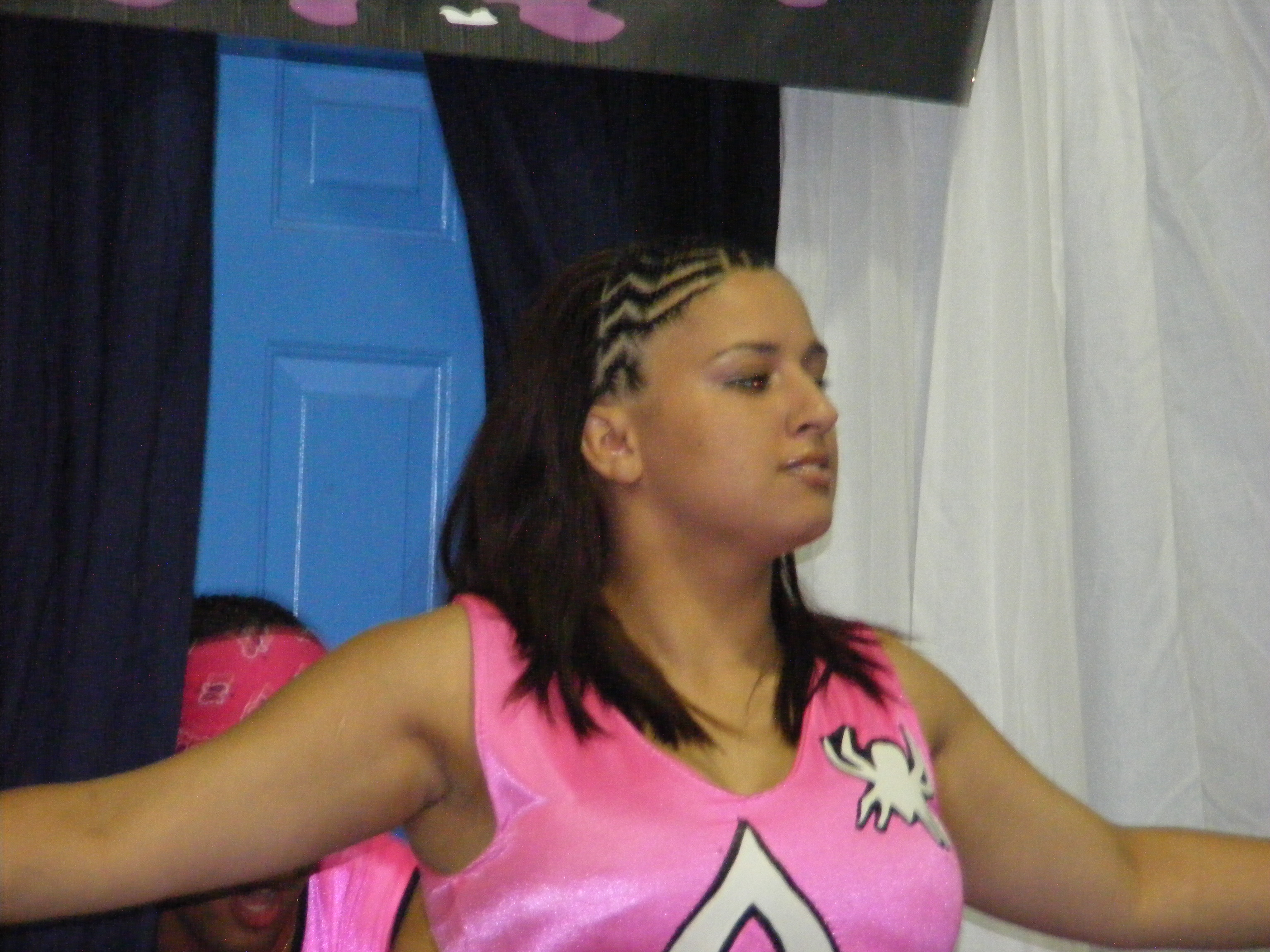 Ana Rocha (Ariel) at Wrestlejam 5, October 2008